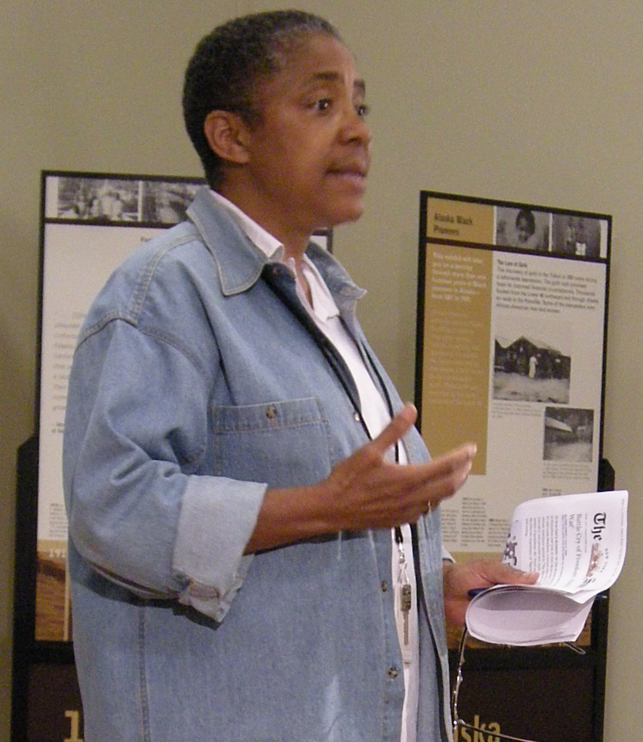 Barbara Earl Thomas, curator of the Northwest African American Museum (NAAM), located in Seattle, Washington, at a staged reading at NAAM of material from Andrew Ward's book The Slaves' War. The event was videotaped for C-SPAN. Thomas is also an artist in her own right.